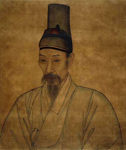 Yi Jae-gwan (attributed to), Portrait of a Confucian scholar, a painting